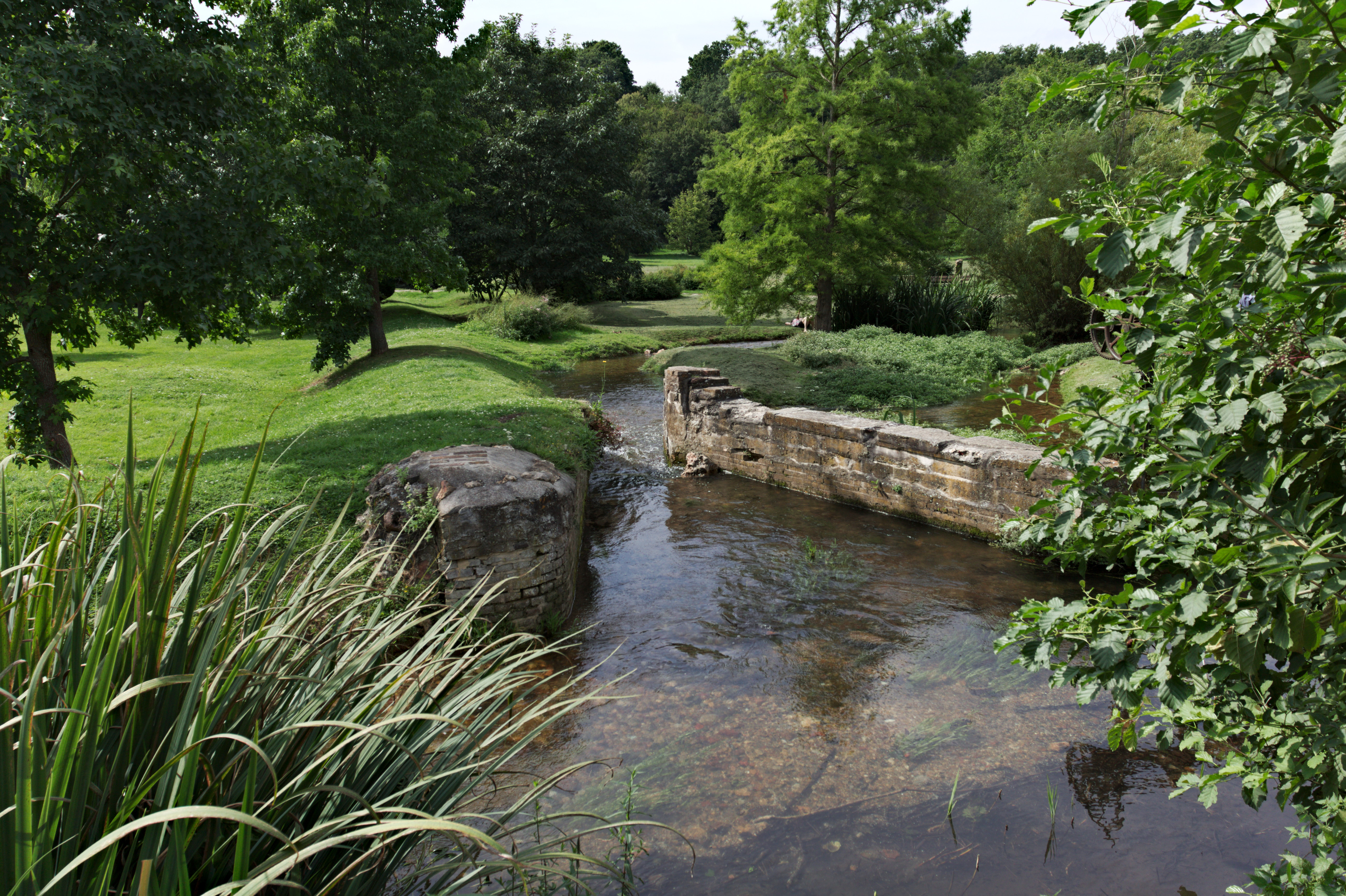 The river Rouloir in Conches-en-Ouche (Eure, France). In the meadows at the Musée du terroir.